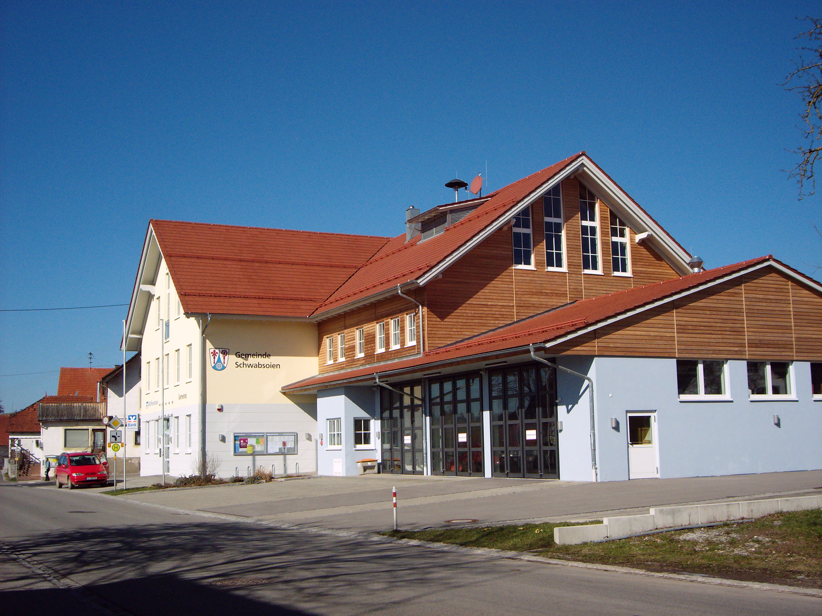 Schwabsoien, Germany, Town Hall